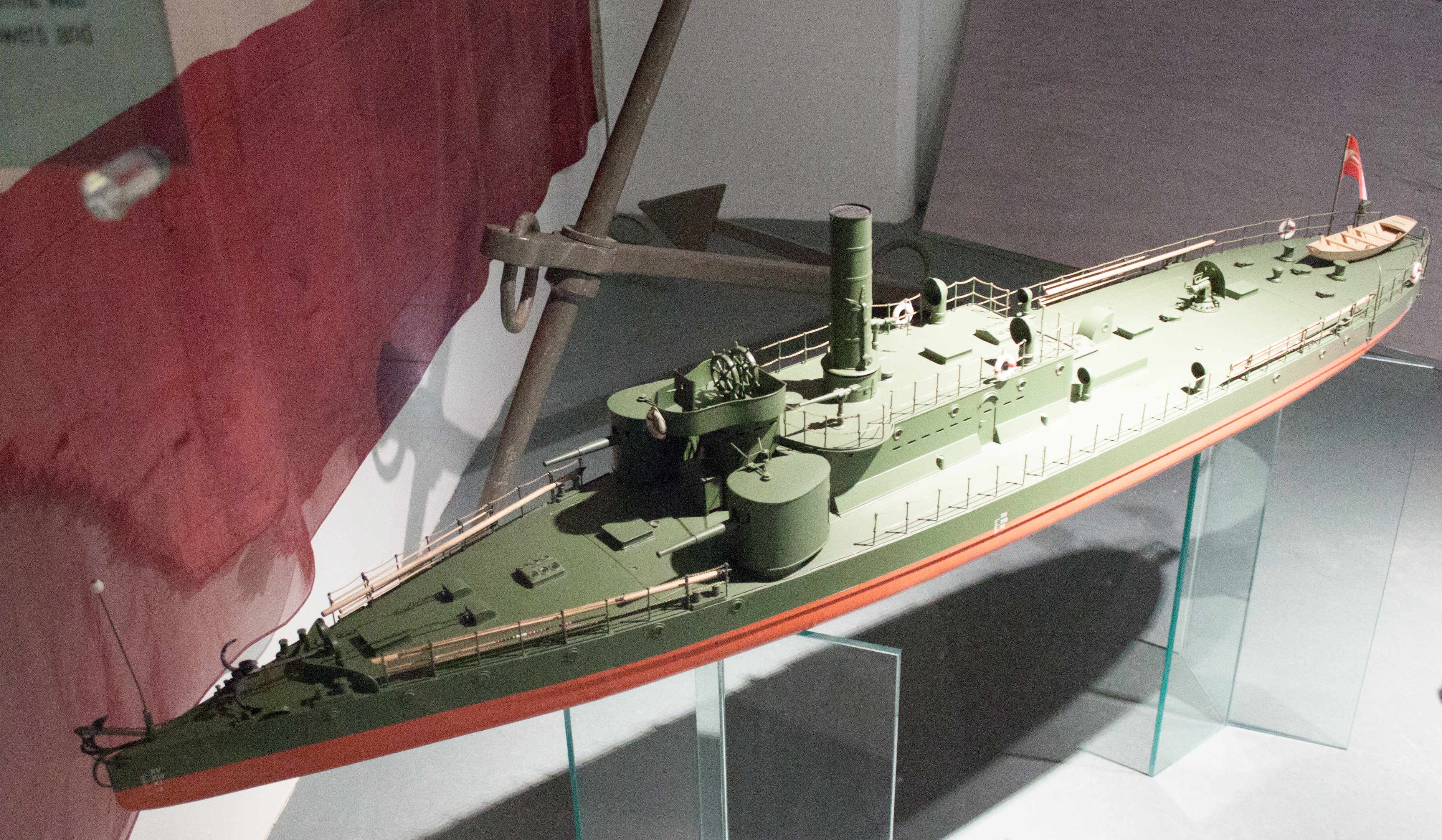 Austro-Hungarian Danube monitor Temes, 1:33 scale model, Heeresgeschichtliches Museum Wien.